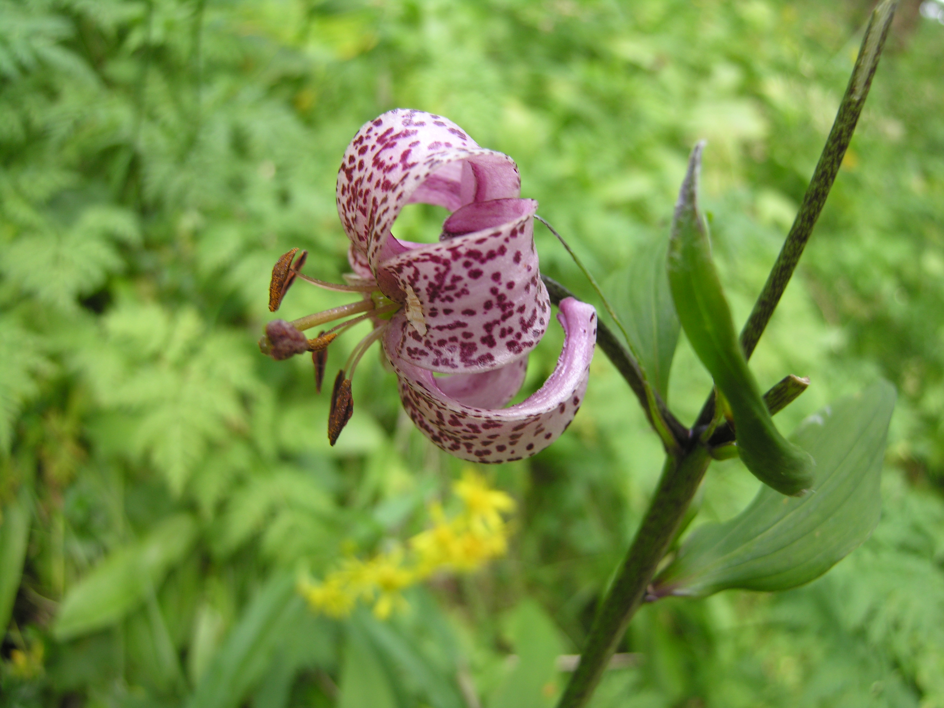 Lilium Martagon, Ober Engadin, Switzerland